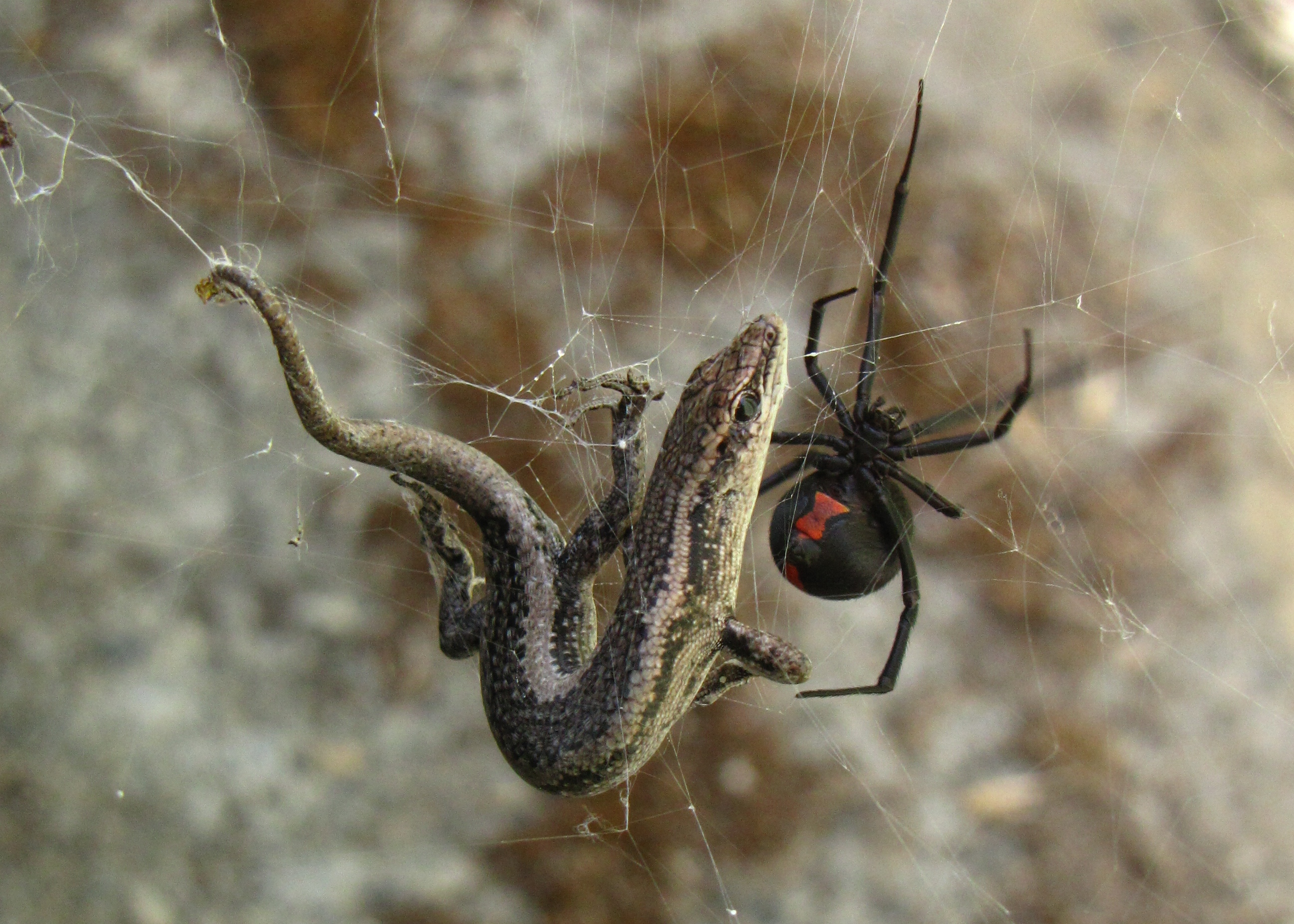 A Redback spider having caught a lizard, Rockingham, Western Australia. The lizard was still alive at the time.